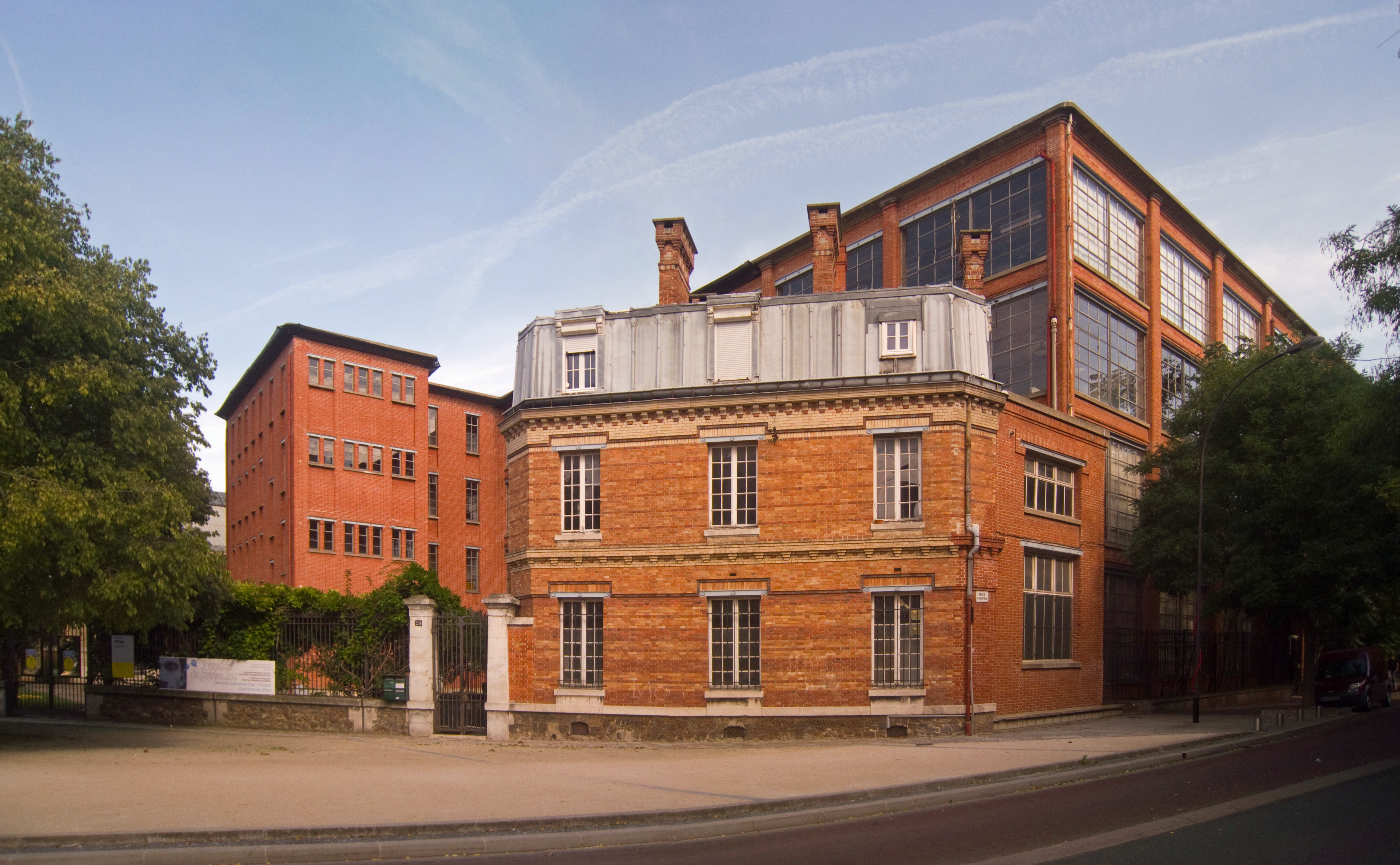 Manufacture des œillets, Ivry-sur-Seine, Val-de-Marne, France. Former quill factories, now a cultural center.